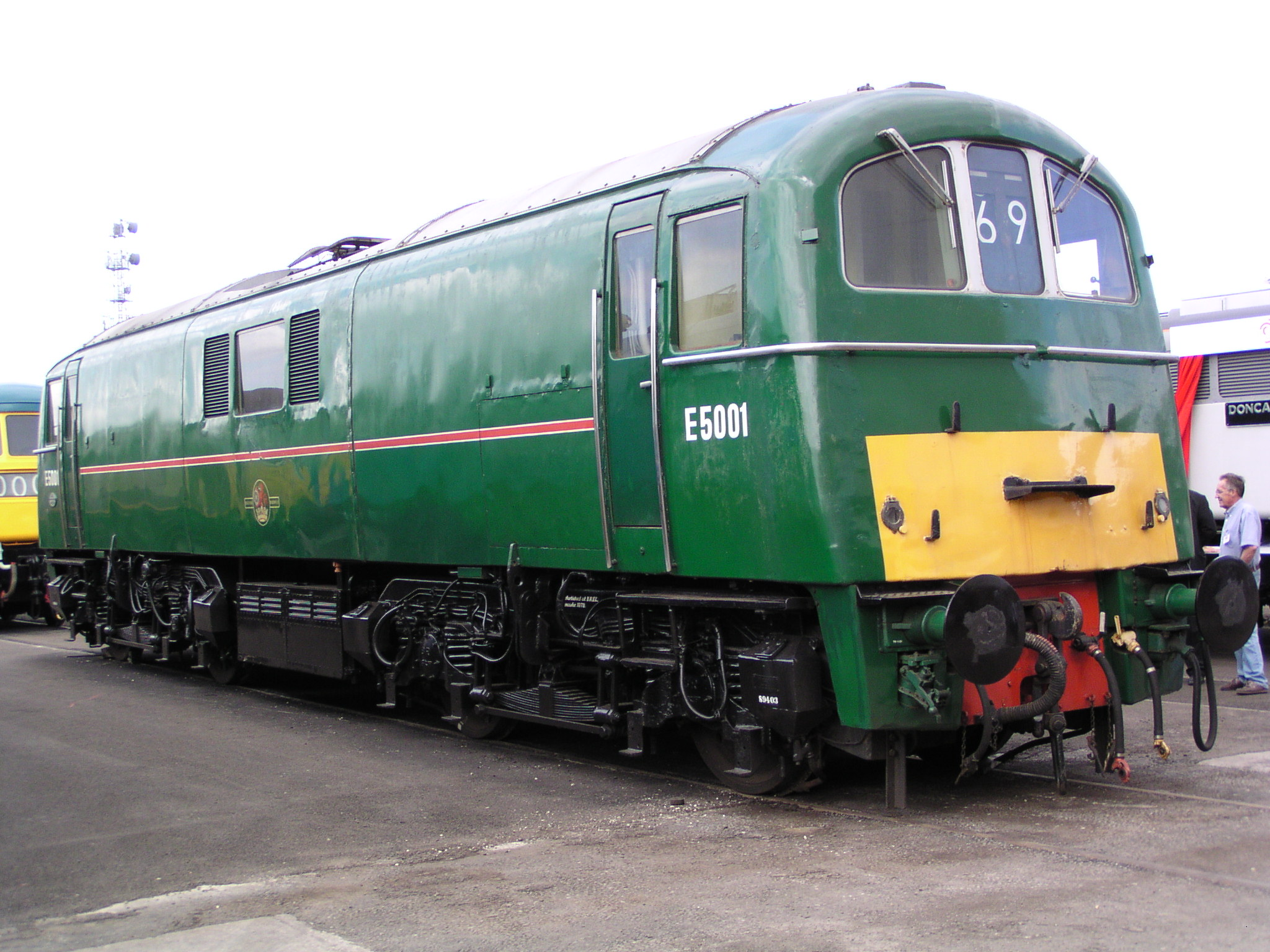 British Rail Class 71, no. E5001 on display at Doncaster Works open day on 27th July 2003. Image by Phil Scott (Our Phellap)